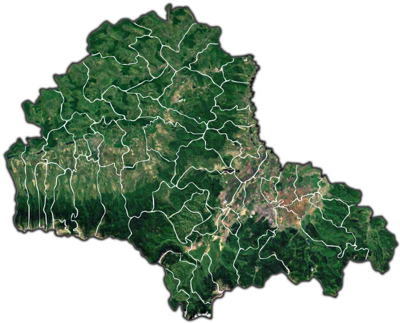 Romania Brasov Location blank map.